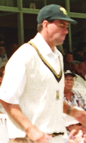 Hansie Cronje at Newlands, January 2000. Photo by Paddy Briggs